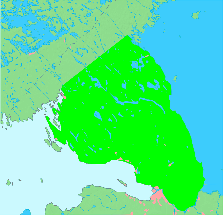 Karelian Isthmus between lake Ladoga and the Gulf of Finland. Bounding box West 27.7°, South 59.75°, East 31.4°, North 61.25°. Center at 60°30′00″N 29°33′00″E / 60.50000°N 29.55000°E.